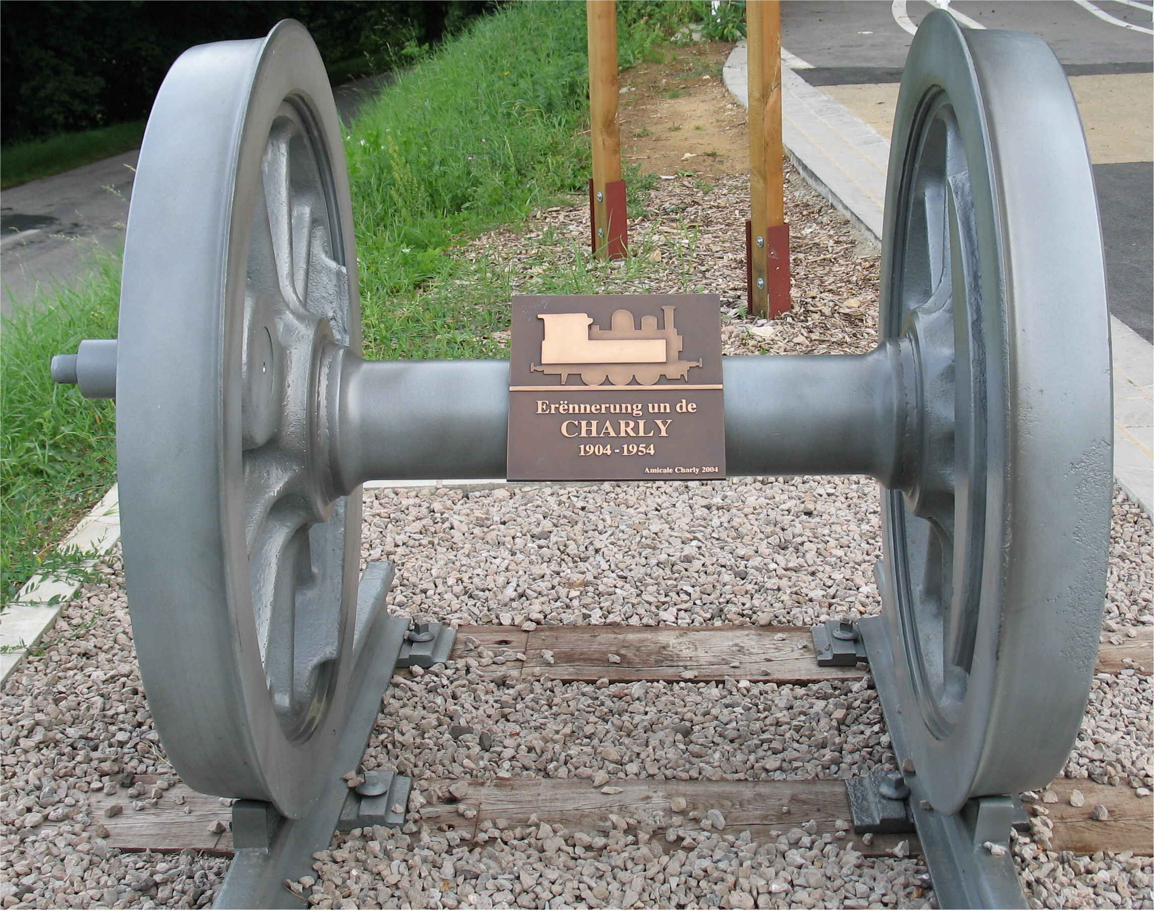 Memorial to Charly at "Charlysgare" in Hostert